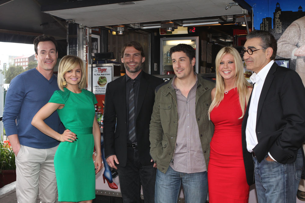 Cast and writers of American Reunion at a media event at Harry's Cafe de Wheels in Woollomooloo.